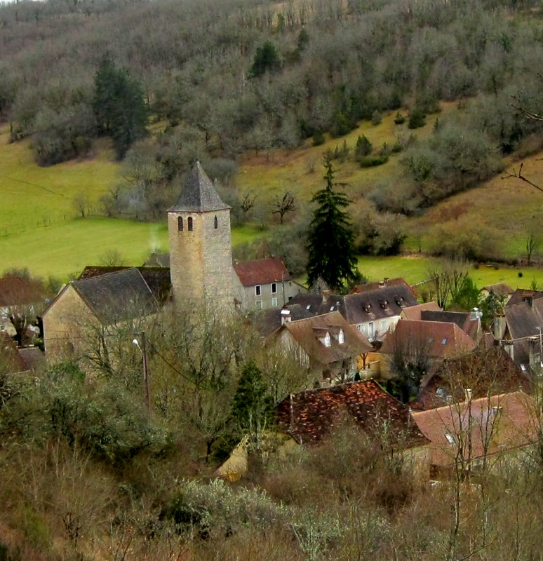 View of the village and church of Vaillac in Lot department, France.